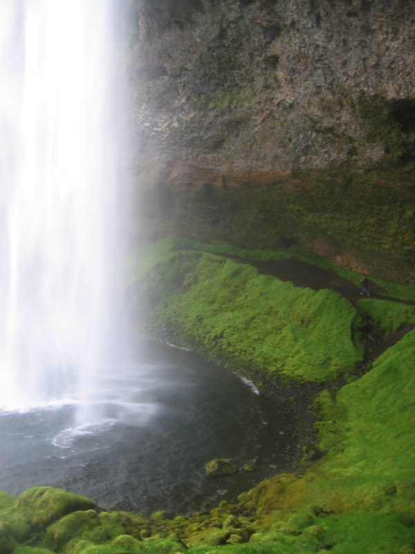 Mossy trails behind Seljalandsfoss in Iceland